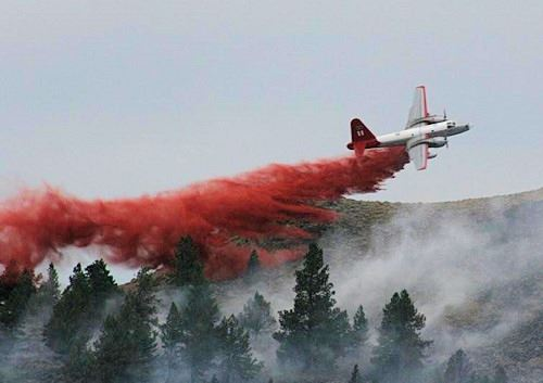 BLM Firefighting at Pine Mountain, Oregon Photo by Sheldon Rhoden/BLM Oregon